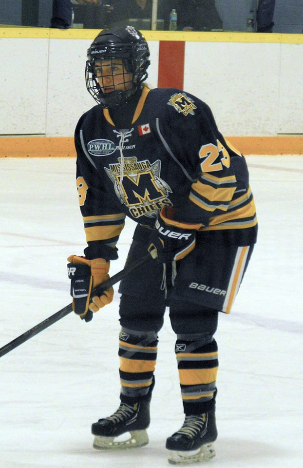 This photo was taken by Devan Mighton during the 2014-15 PWHL season.